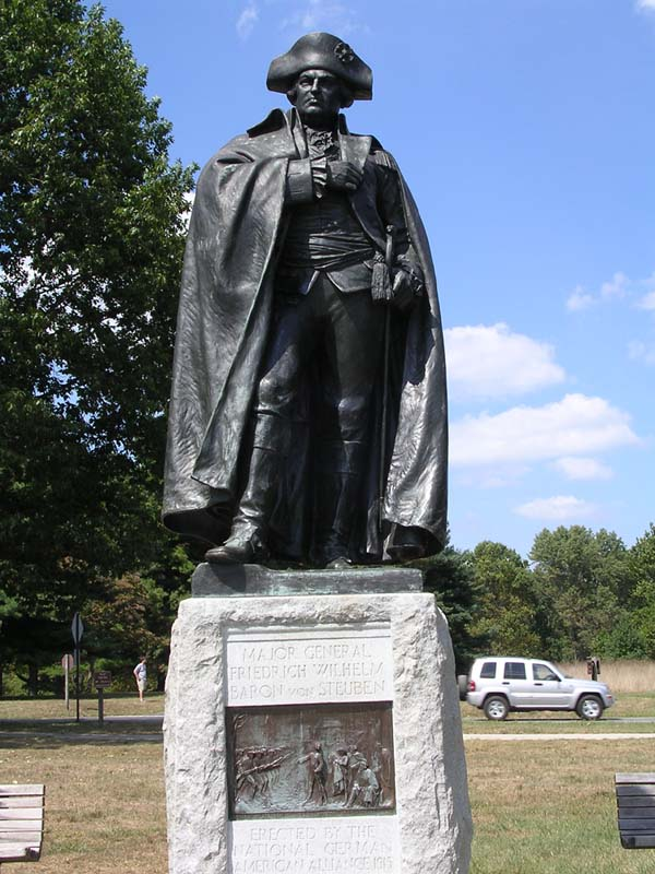 Picture of Friedrich Wilhelm von Steuben statue at Valley Forge. Photographed by Olessi.